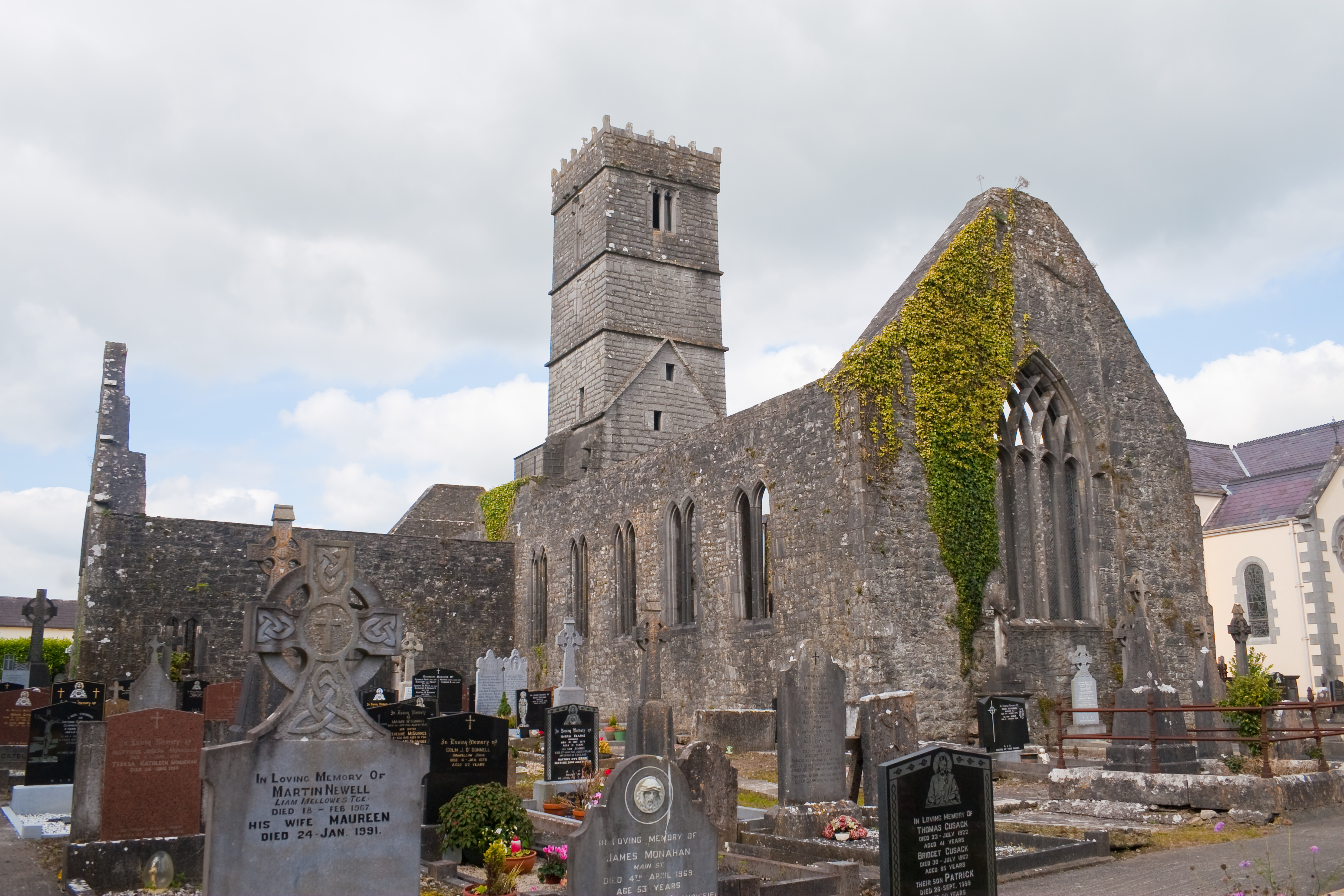 Loughrea Priory, County Galway, Ireland South-east view of the old priory.